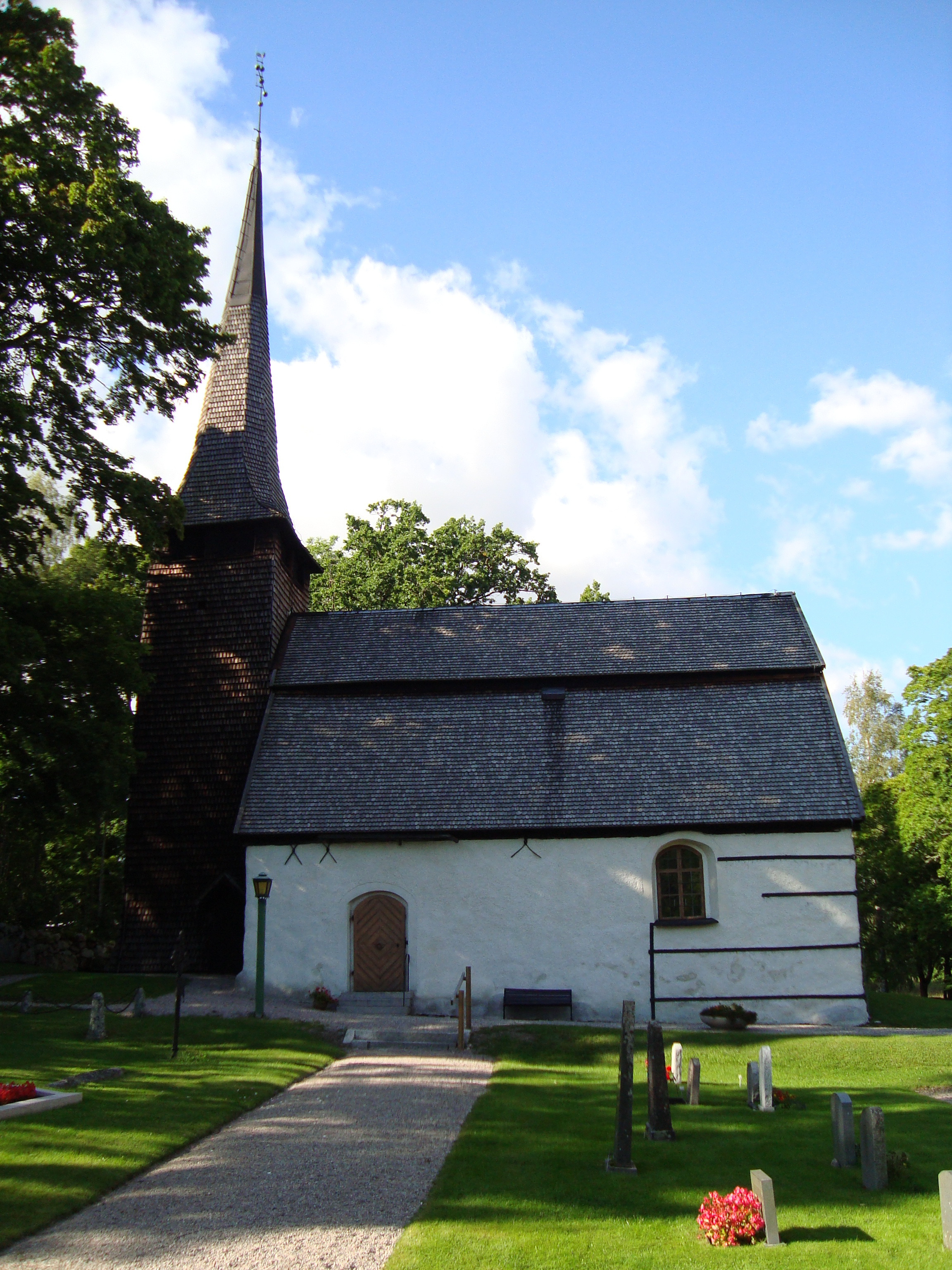 Church of Kungs-Barkarö, municipality of Kungsör , Sweden